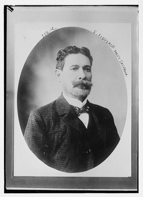 Fernando Figueroa President of Salvador